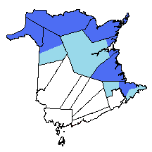 A approximative map of the prospective Acadia.